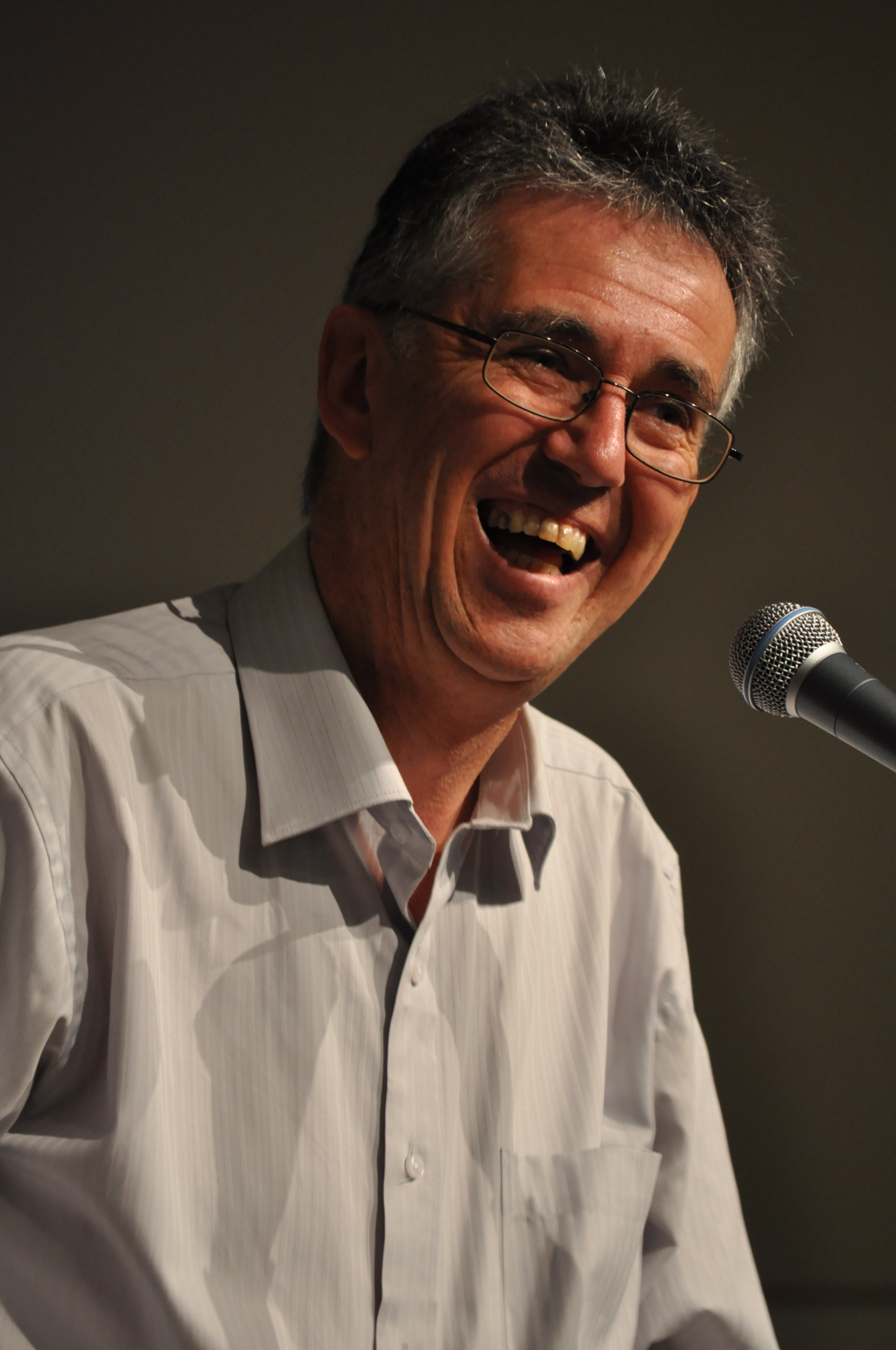 Psychologist Steve Biddulph speaking at Adelaide Uniting Church